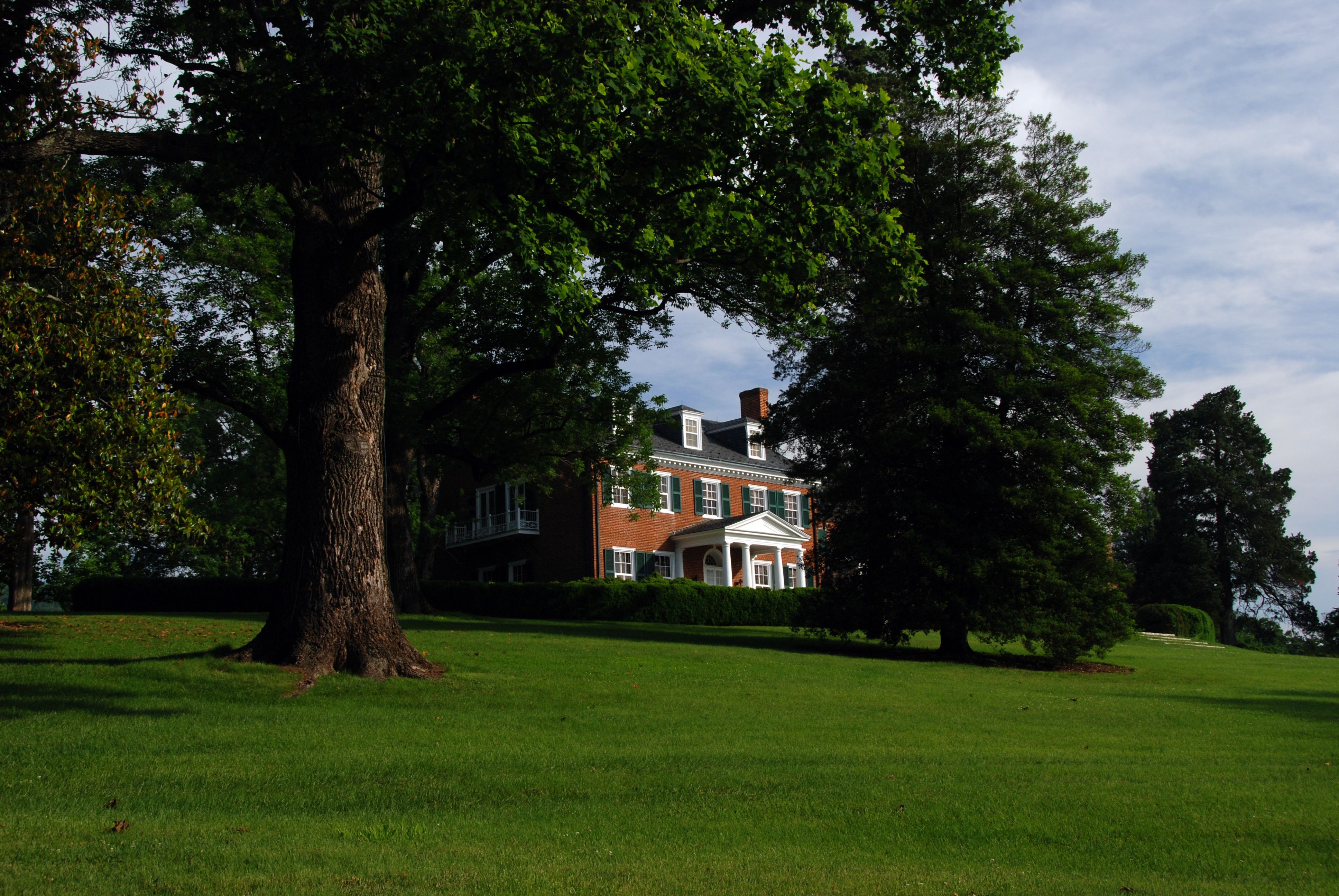 Morven